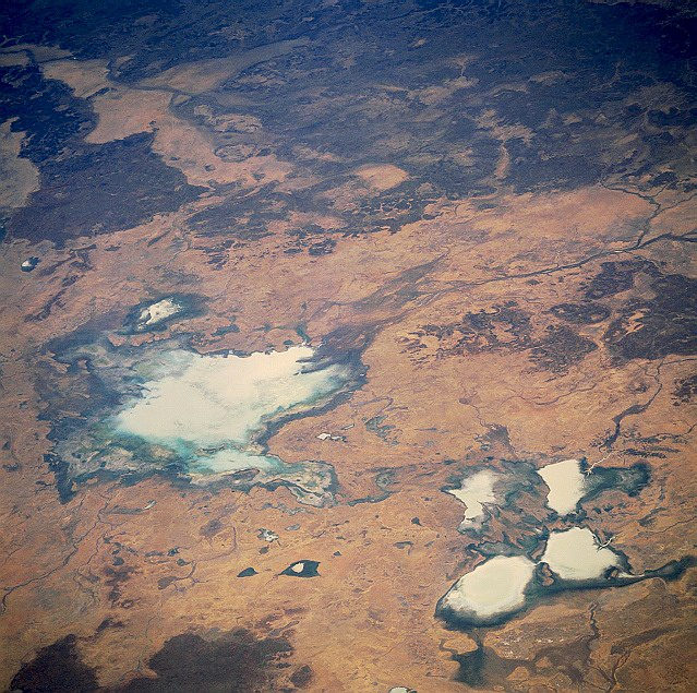 Tarrabool Lake, Northern Territory, Australia more